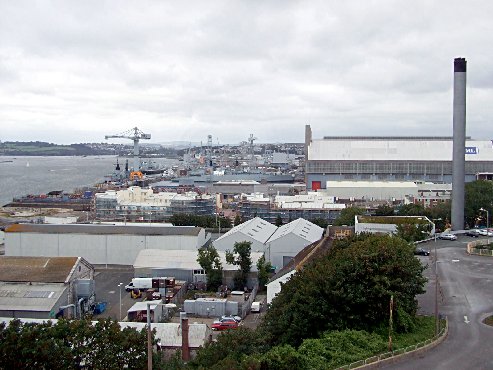 Taken from my room in the Royal Fleet Club.